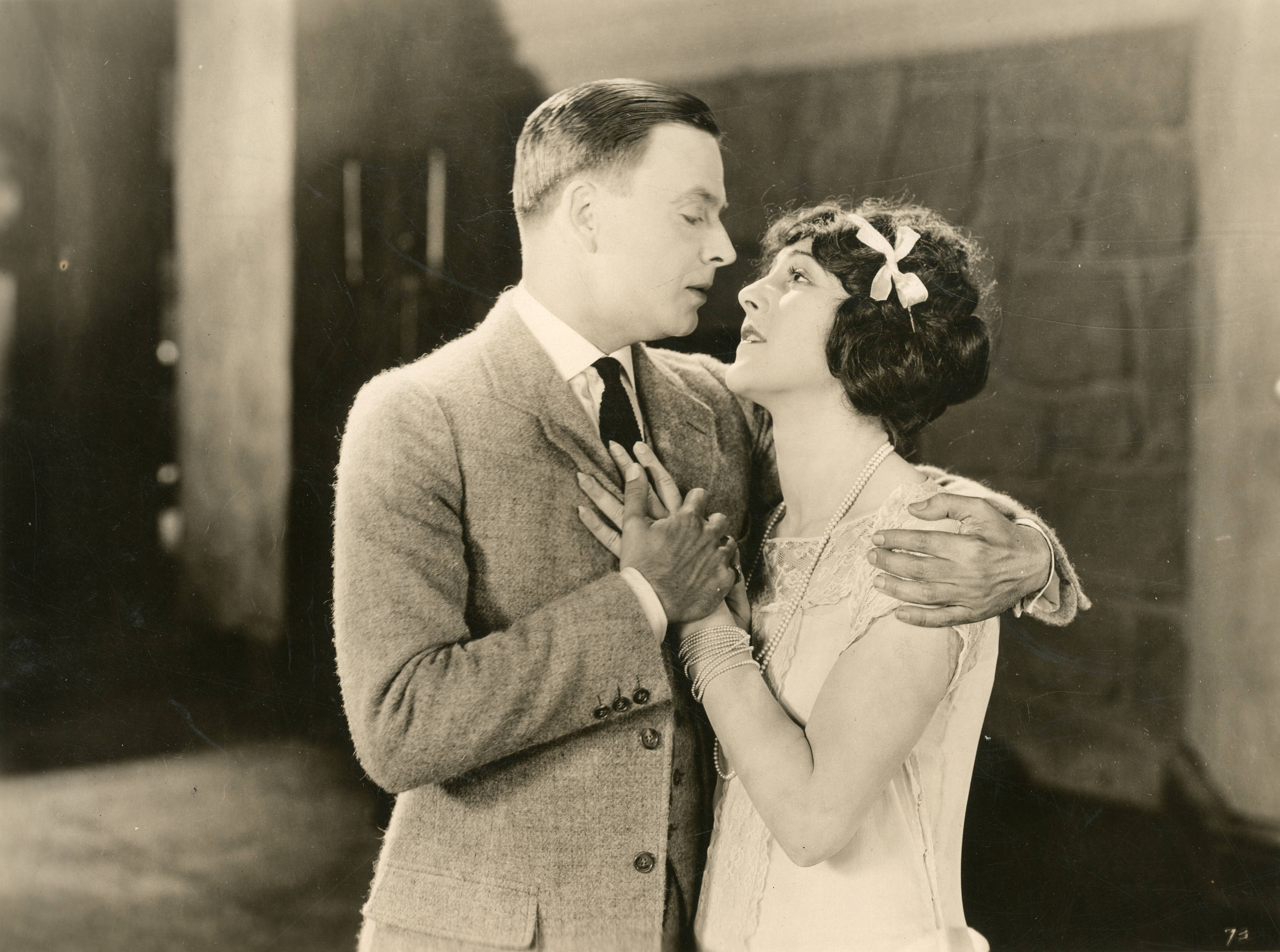 Still from the film The Yankee Consul with Douglas MacLean and Patsy Ruth Miller. Subjects: motion pictures, actors, actresses